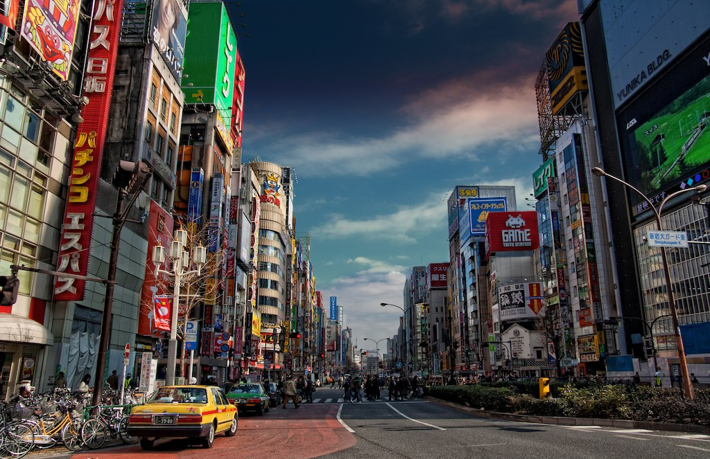 Downtown Shinkuju in early February, it was freezing!. On the left you can see the sign for the Don Quixote building. 1/320 17mm (Canon 17-85mmUSM) f/8.0 ISO:100